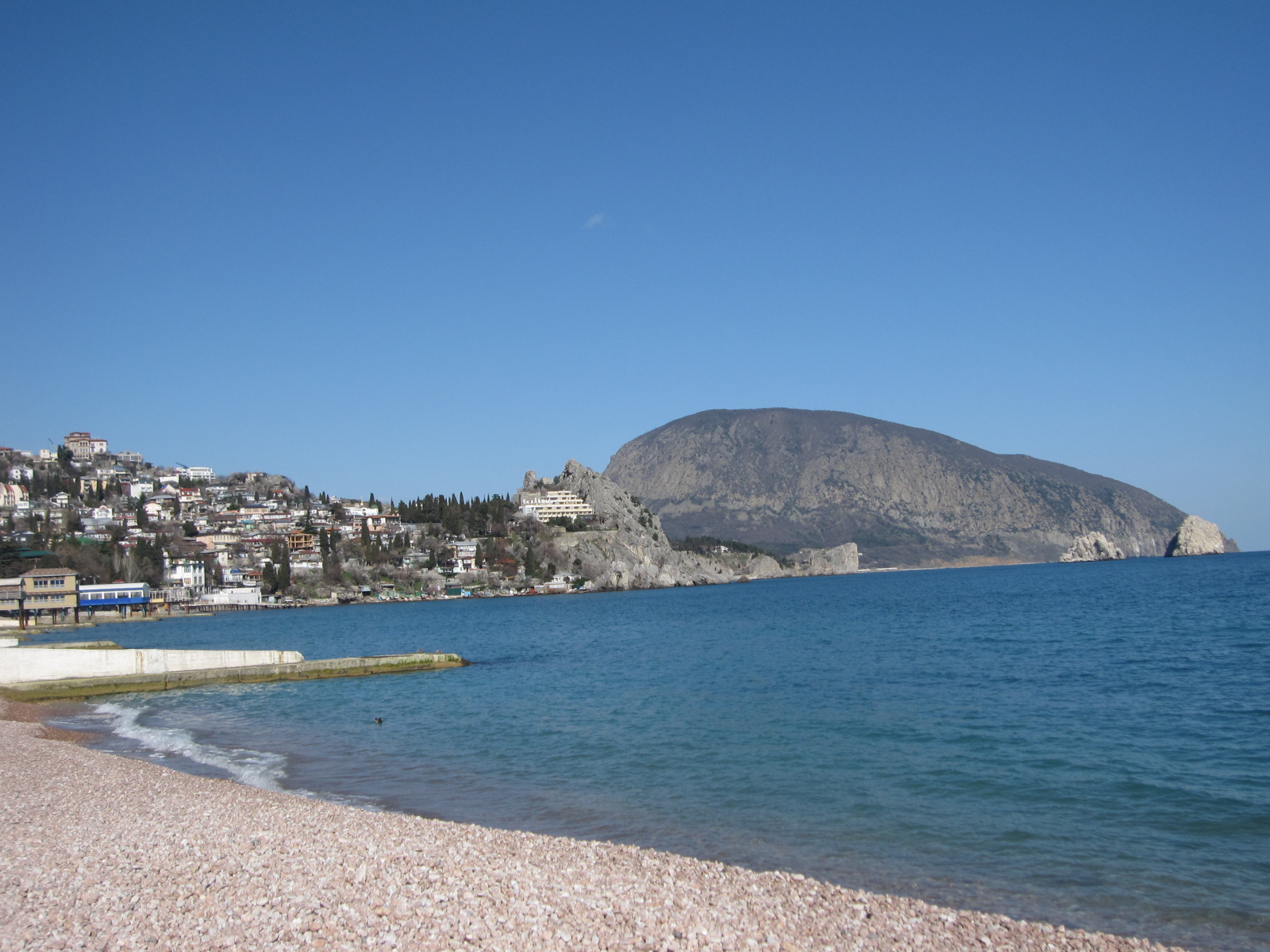 The town of Hurzuf and the peak of Ayu-Dag, viewed from a beach in Hurzuf